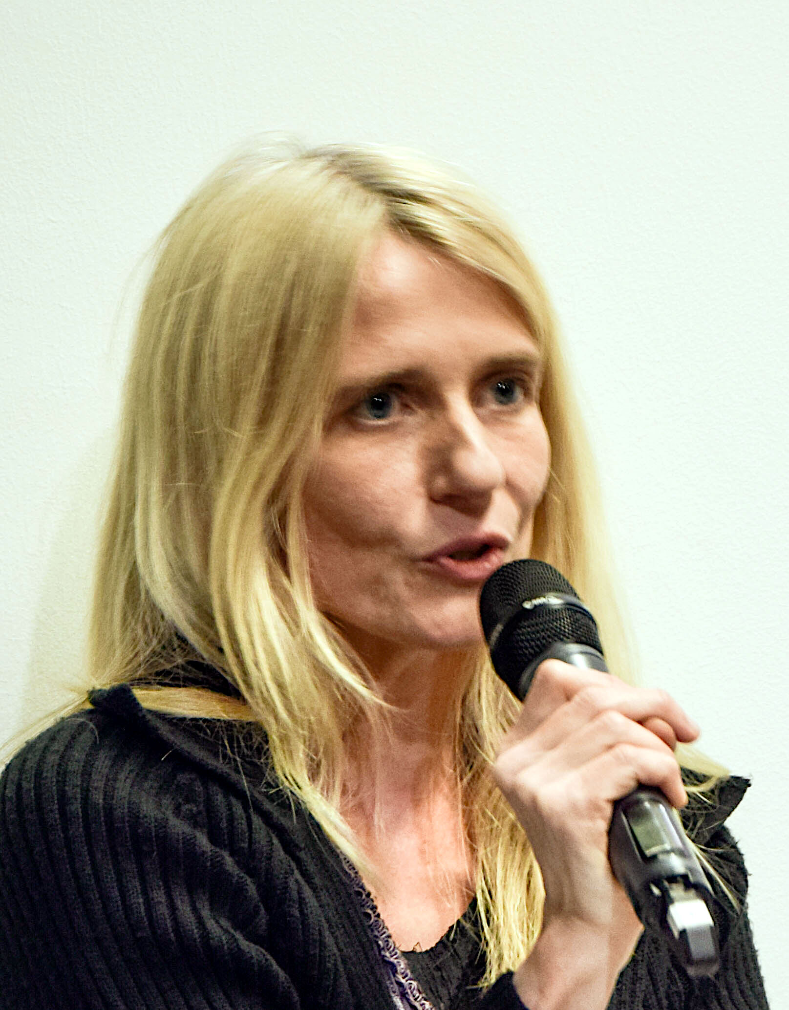 11. ABC des Freien Wissens "K=Kollaboration"